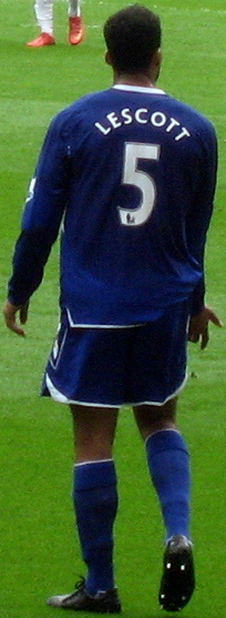 Joleon Lescott. Image cropped from original at flickr.